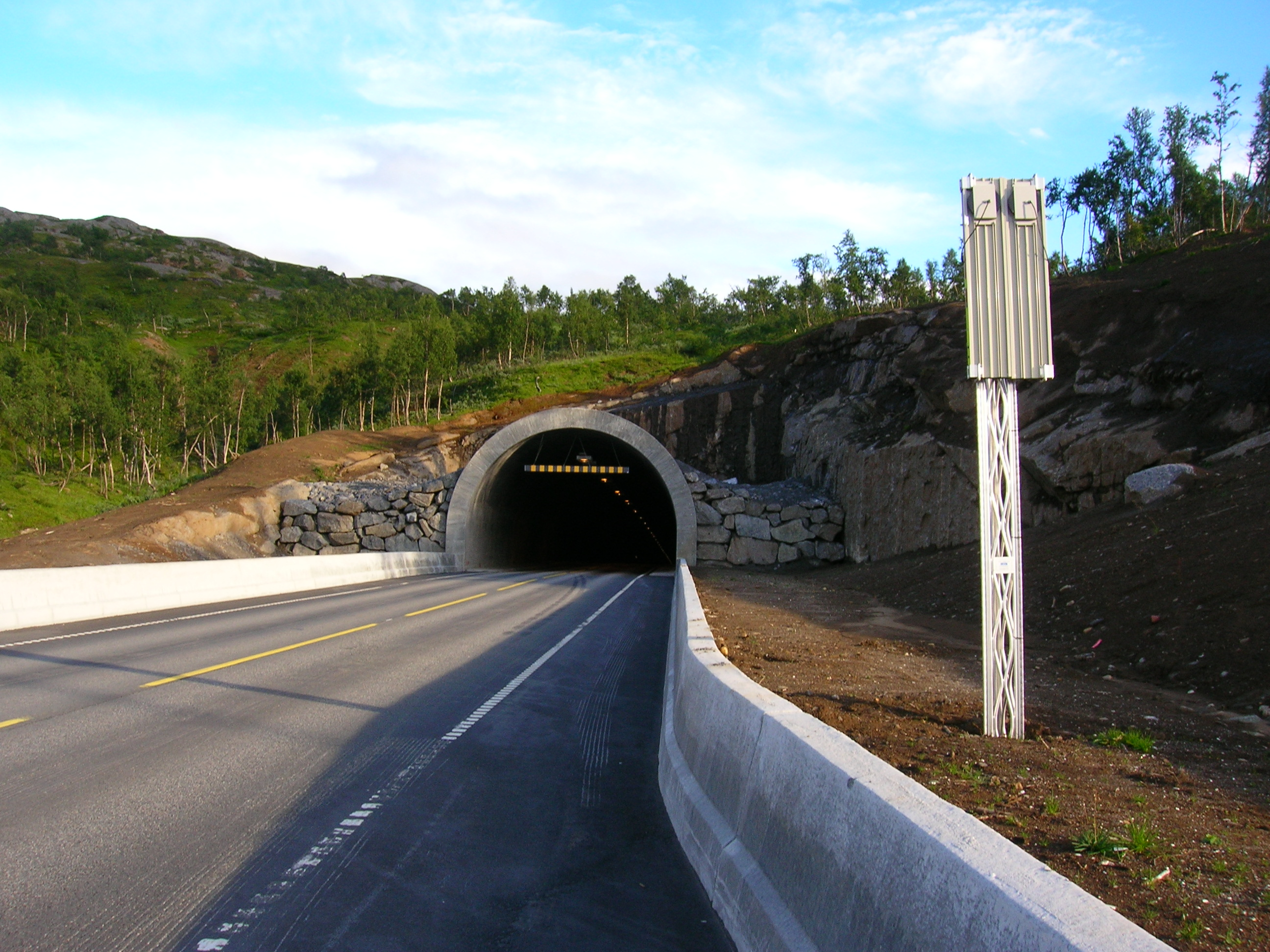 The tunnel of Umskaret, seen from the north. Rana municipality, county of Nordland, Norway, Photo 11 August, 2007 with a Nikon Coolpix 5600 5,1 Megapixel camera.